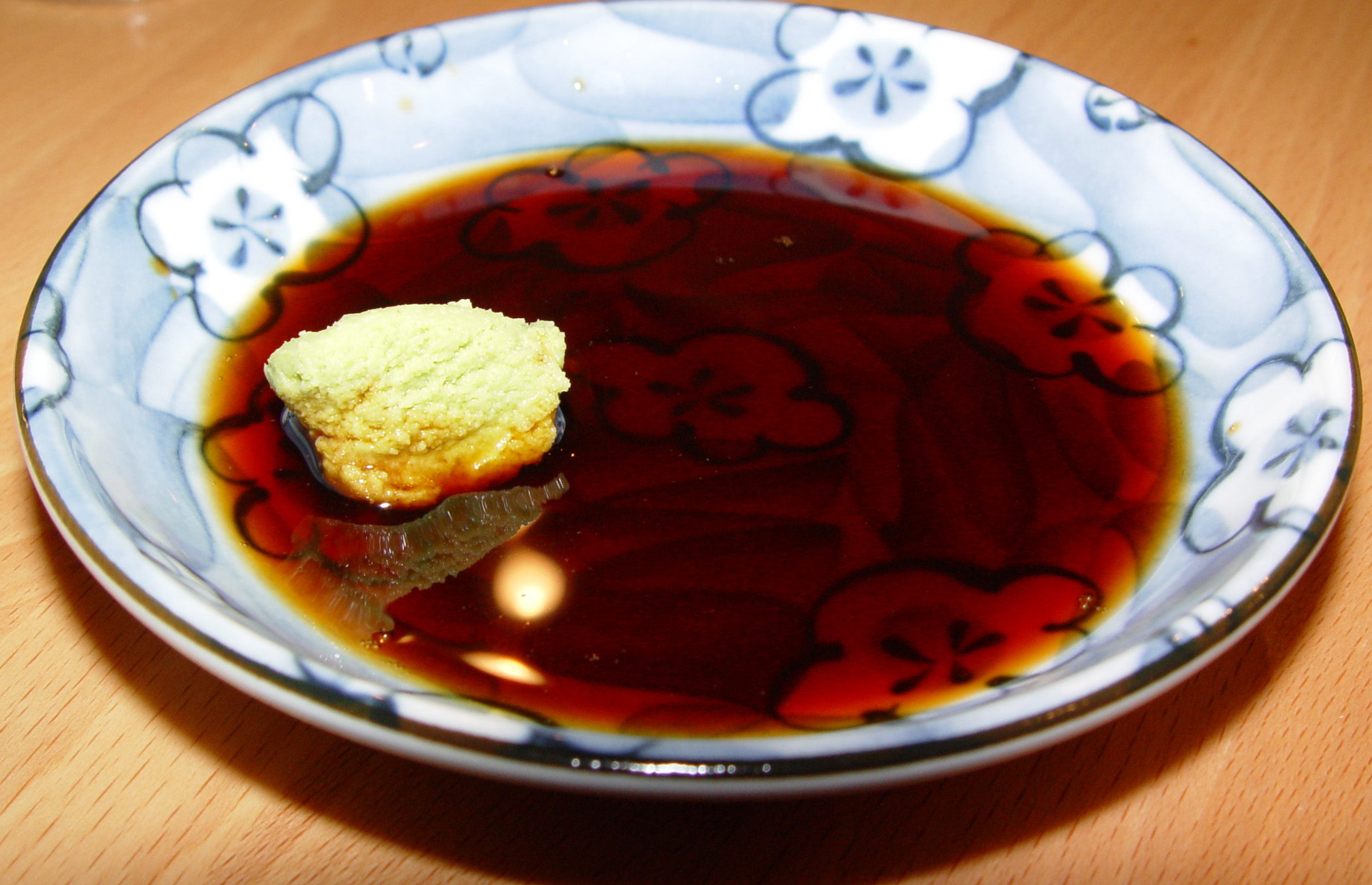 Imitation wasabi in soy sauce, ready to be mixed and used for dipping sushi.